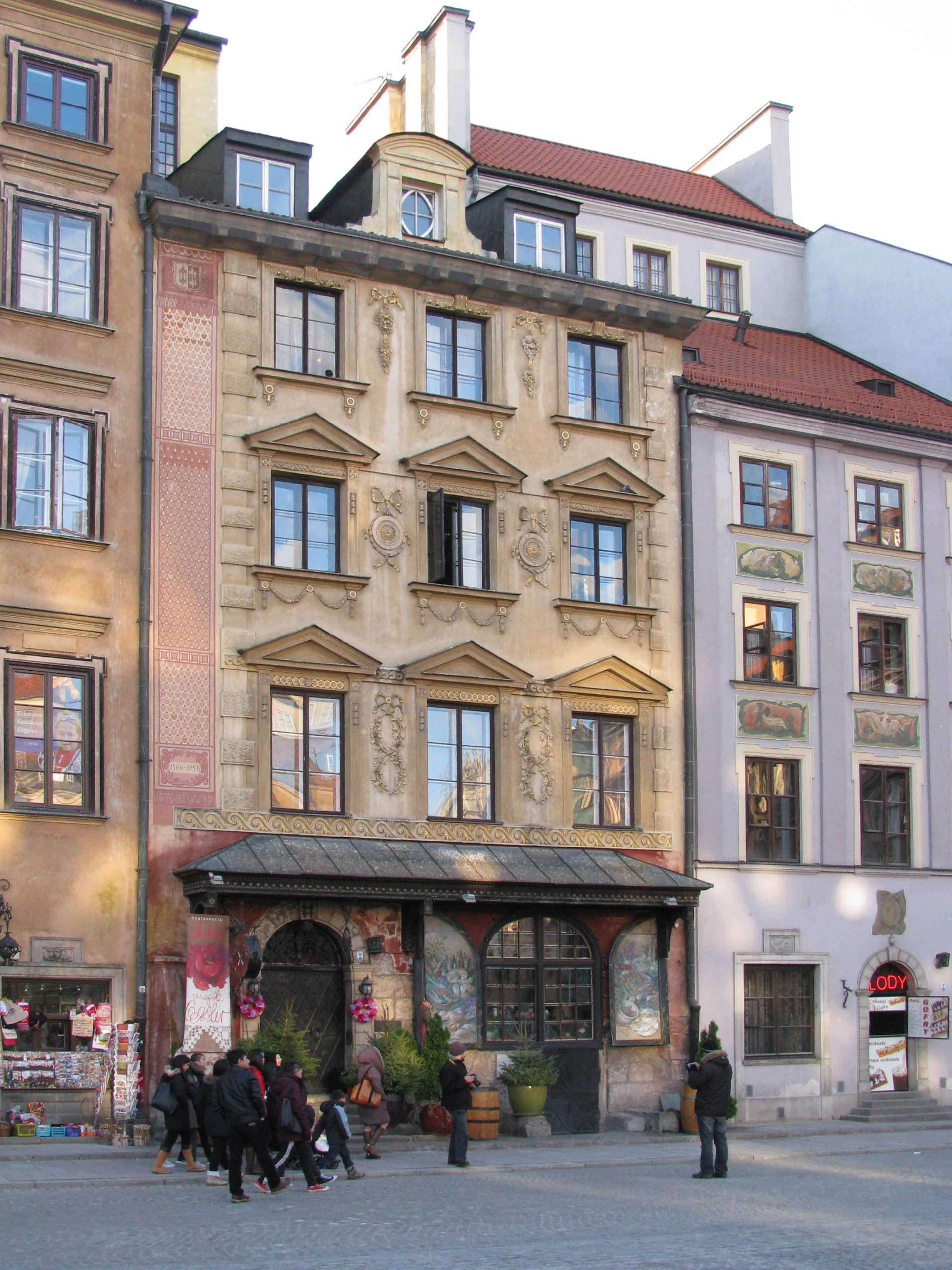 Buildings in the Old Town Market Square of Warsaw (Warszawa). The Scotch Mist Gallery contains many photographs of historic buildings, monuments and memorials of Poland.